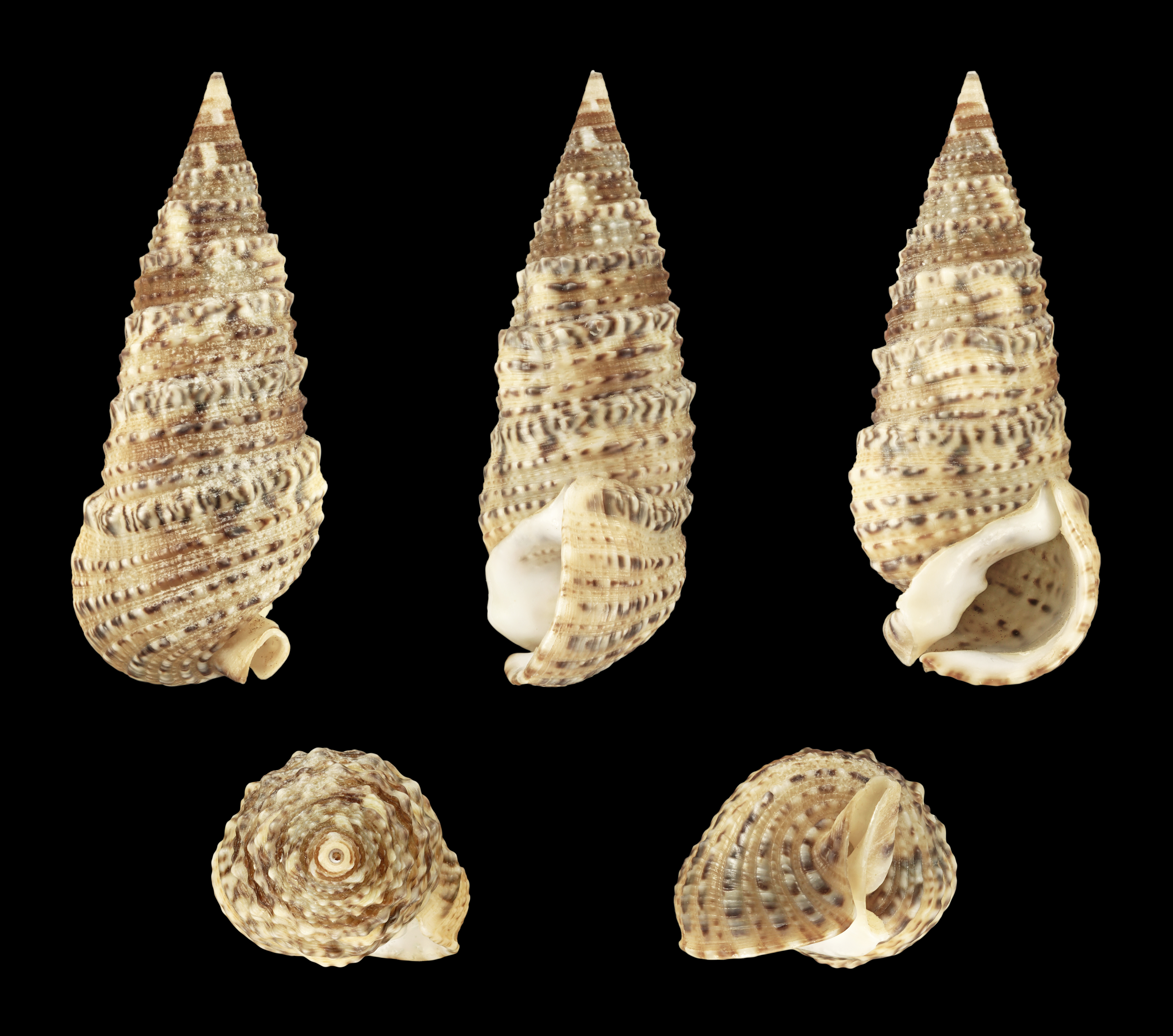 Obelisk Creeper; Length 4.0 cm; Originating from Panglao Island, Bohol, Philippines; Shell of own collection, therefore not geocoded. Dorsal, lateral (right side), ventral, back, and front view.